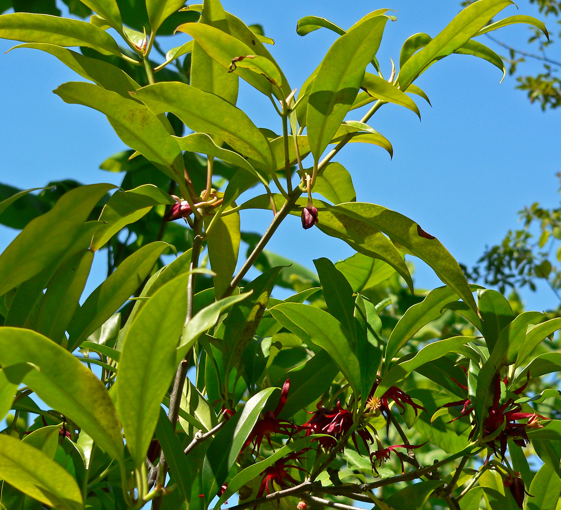 Illicium floridanum at the University of California Botanical Garden, Berkeley, California